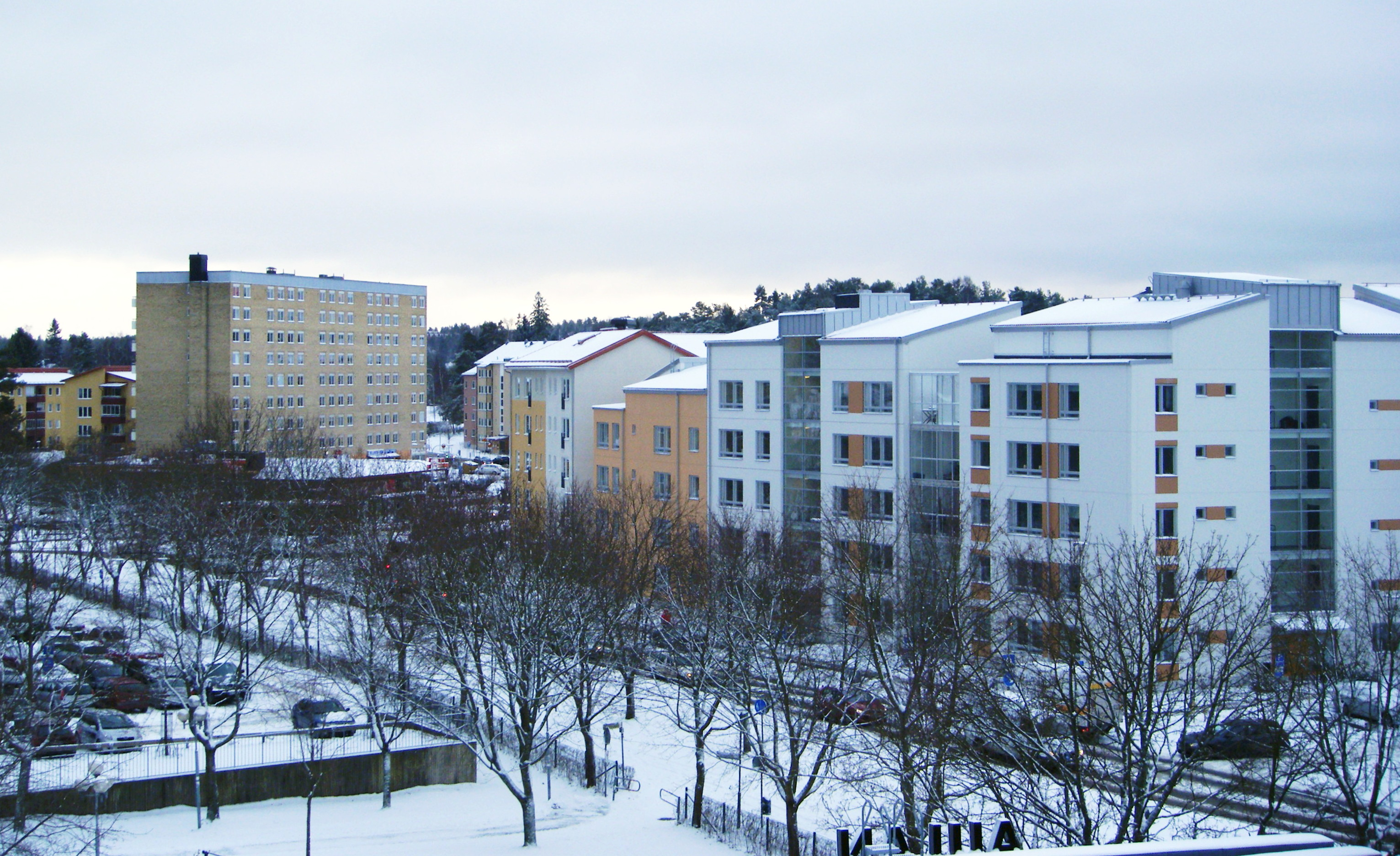 Kvarnbergsplan i Huddinge, Sweden.